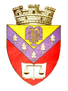 Coat of arms of Băile Govora, Vâlcea County, Romania.